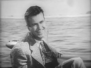 Stephen Dunne in the 1946 film Doll Face